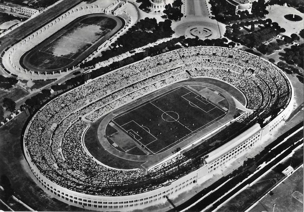 Panoramic view of the Olympic Stadium in Rome, originally names Stadio dei Centomila ("100,000s' Stadium"), in the 1950s